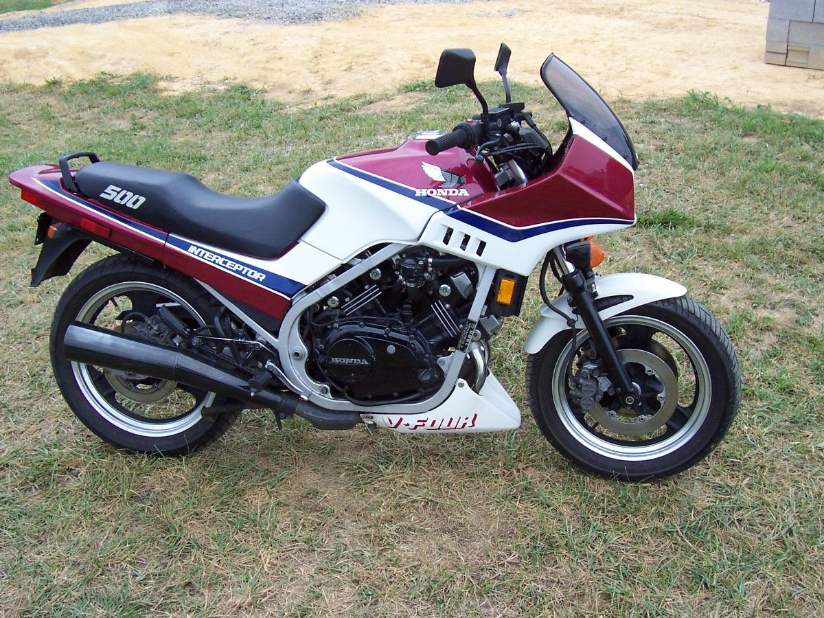 Honda VF500F Interceptor. Photographed at Hunt's Lodge by Michael J. Freeman. --Pi3832 19:12, 24 July 2006 (UTC)